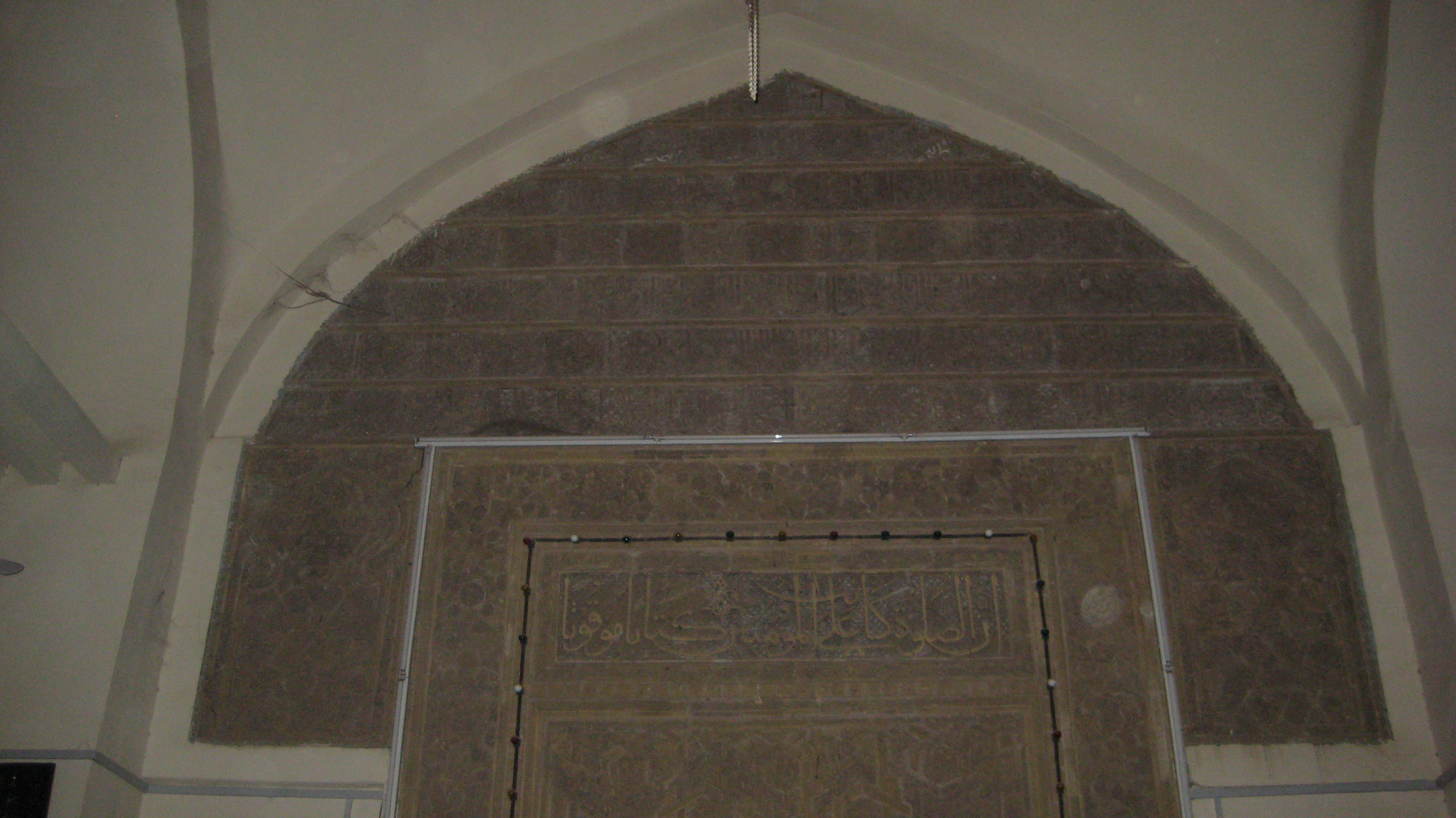 صورة من مصلى المدرسة المرجانية التاريخية